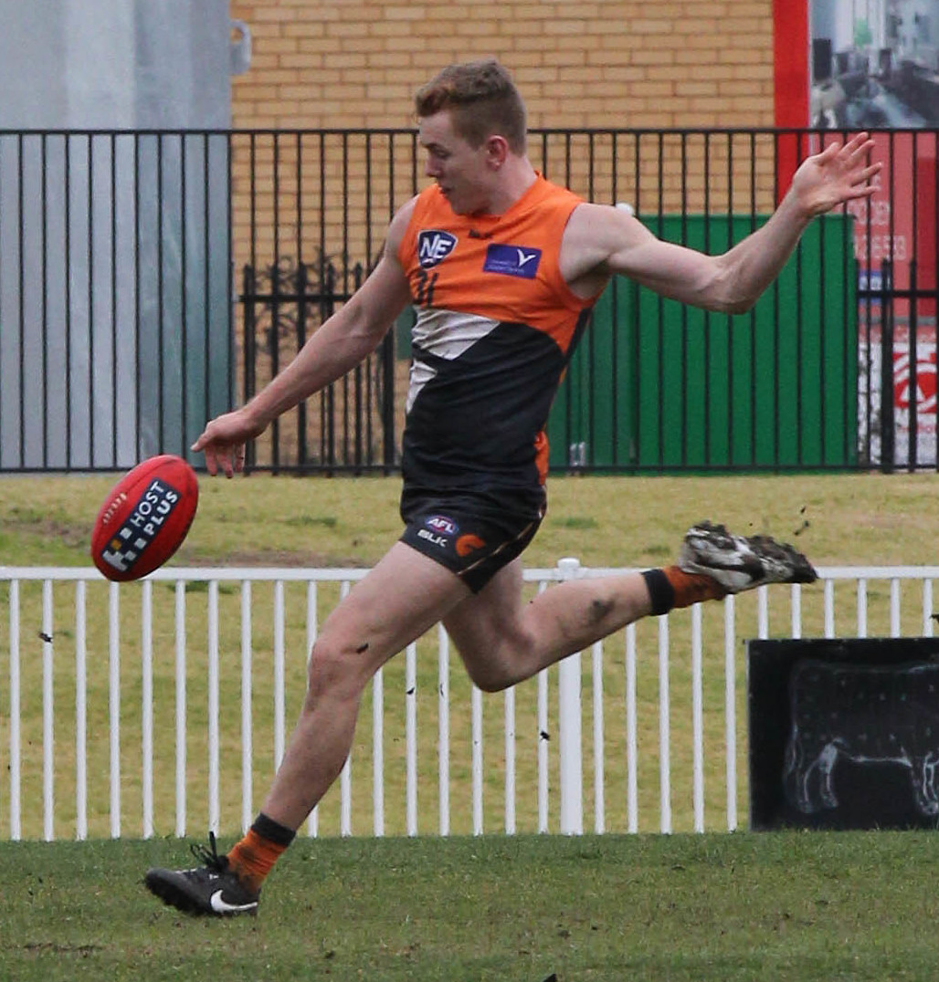 Jacob Townsend kicks during a NEAFL match in August 2015